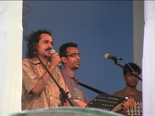 Banglaeshi band Dalchhut performing in a concert at the American International University-Bangladesh